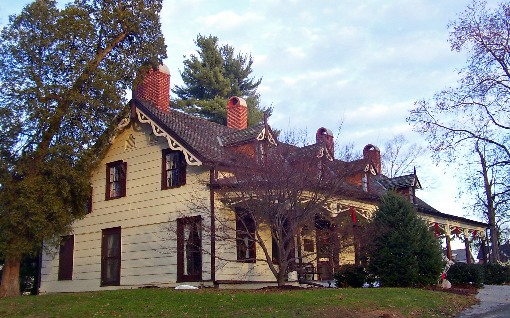 Brewer-Mesier House in Wappingers Falls, NY, USA, part of the Wappingers Falls Historic District